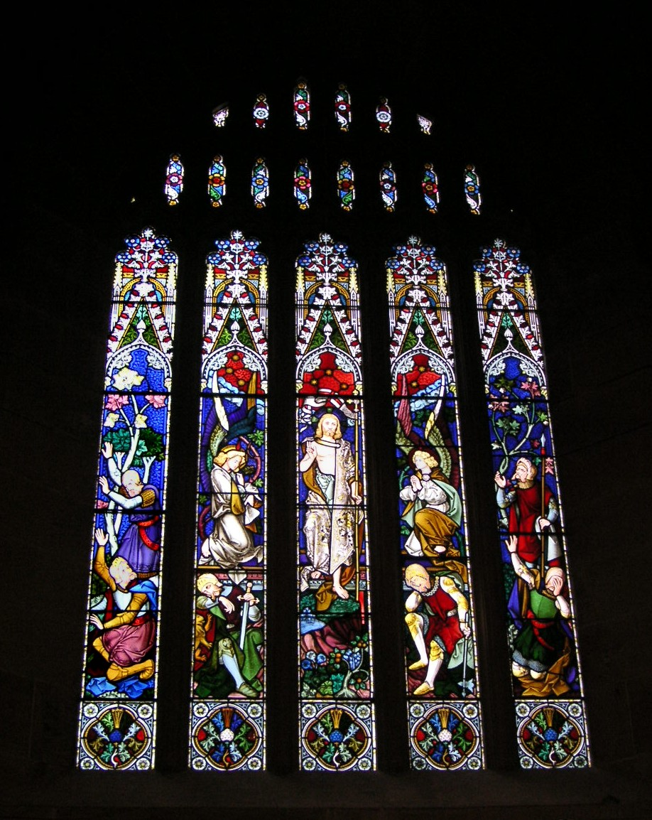 Stained glass by John Hardman of Birmingham, subject "The Resurrection", loction- St. Andrew's cathedral, Sydney. 1850s, one of 27 on the life and teachings of Jesus